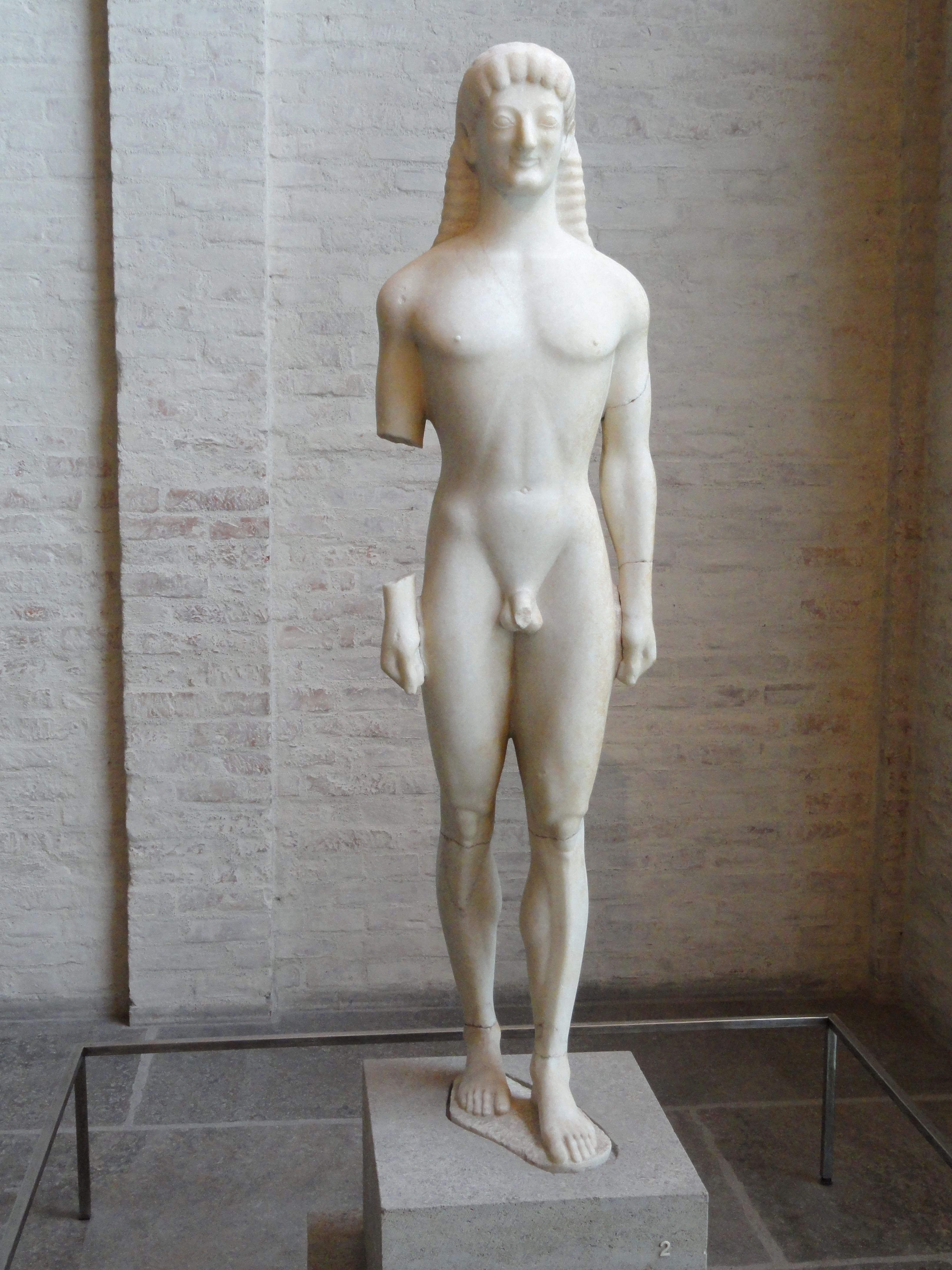 So called “Apollo (or Kouros) of Tenea”, corinthian kouros with the archaic smile, ca. 560–550 BC.